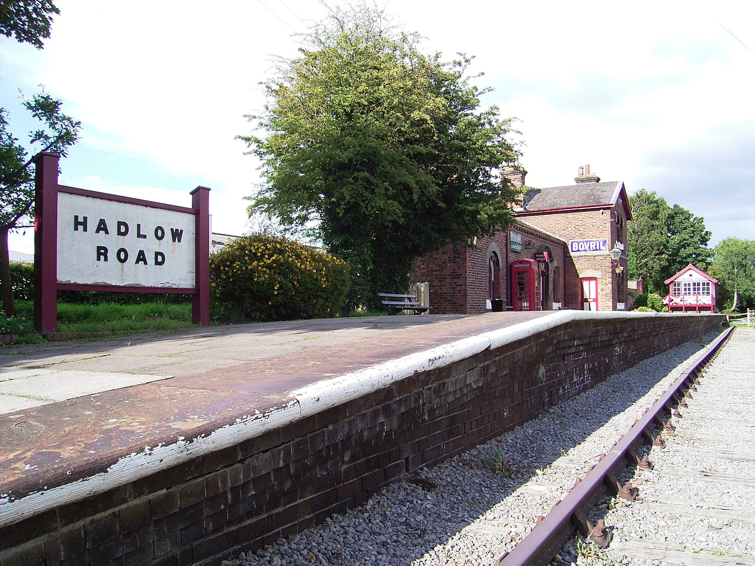 Picture of Hadlow Road Railway station, Willaston, Wirral